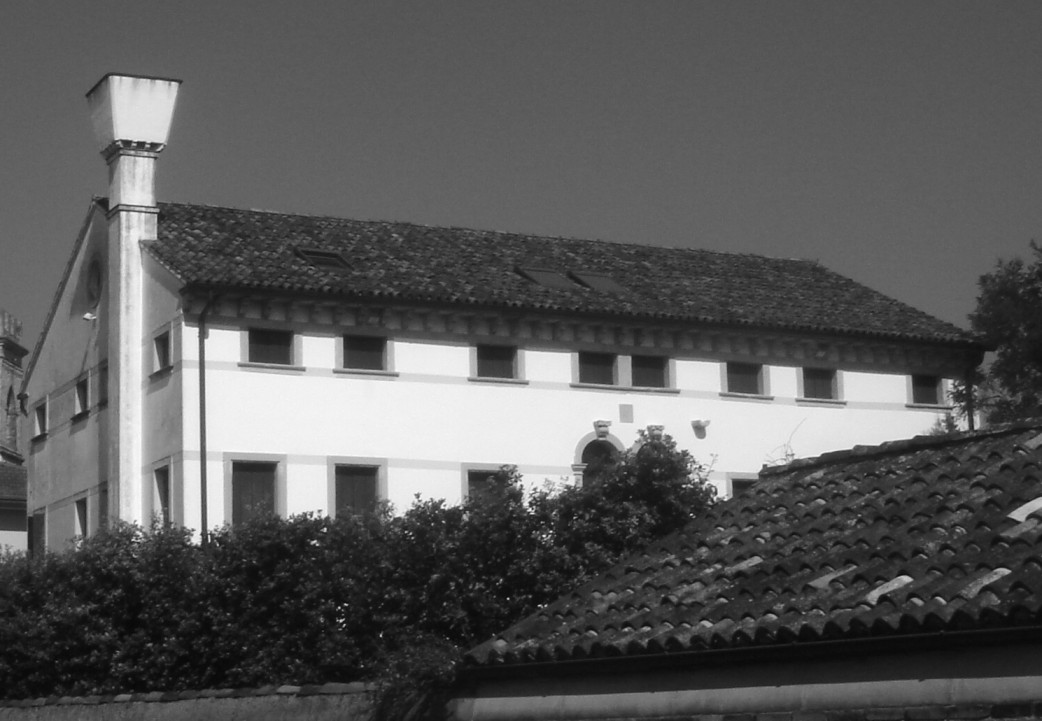 Gaiarine (TV)